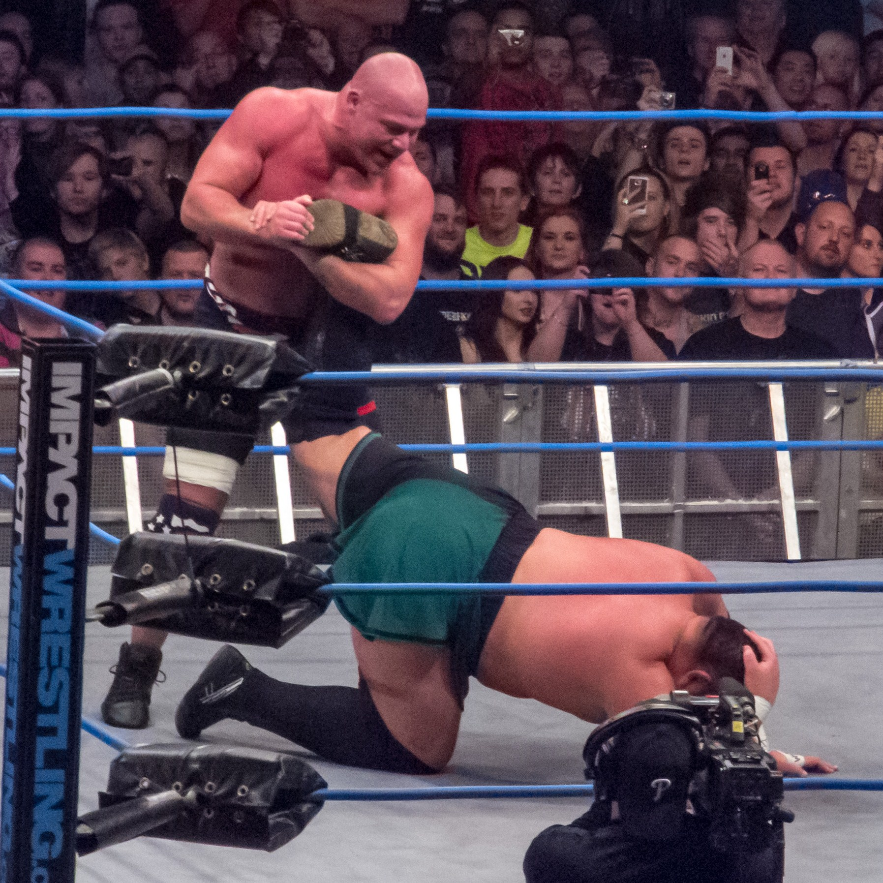 Kurt Angle applies the ankle lock on Samoa Joe at the Impact! TV Tapings in Wembley, England on January 26, 2013.